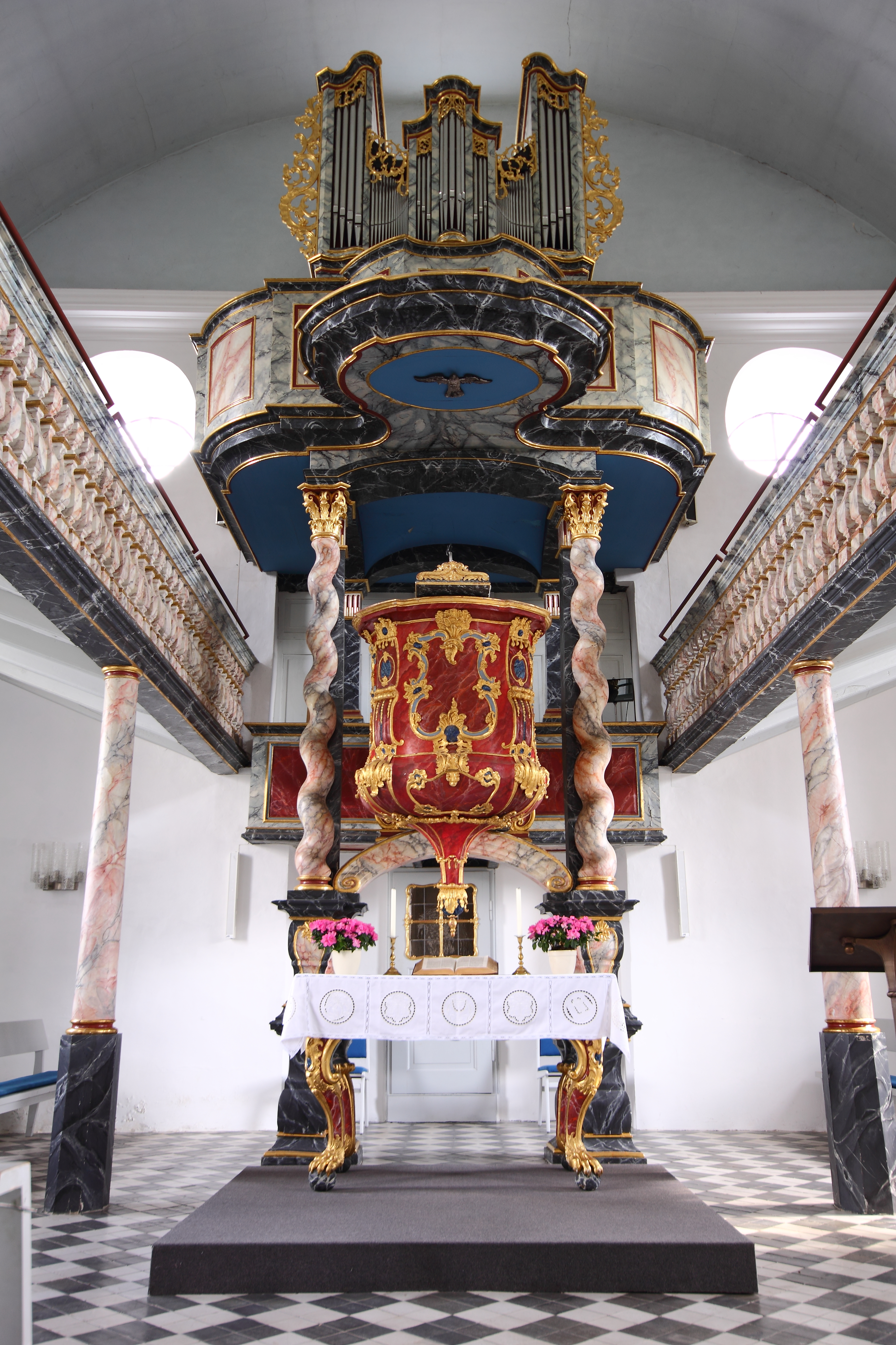 Altar an pulpit with organ in the protestant church in Hülsenbusch.